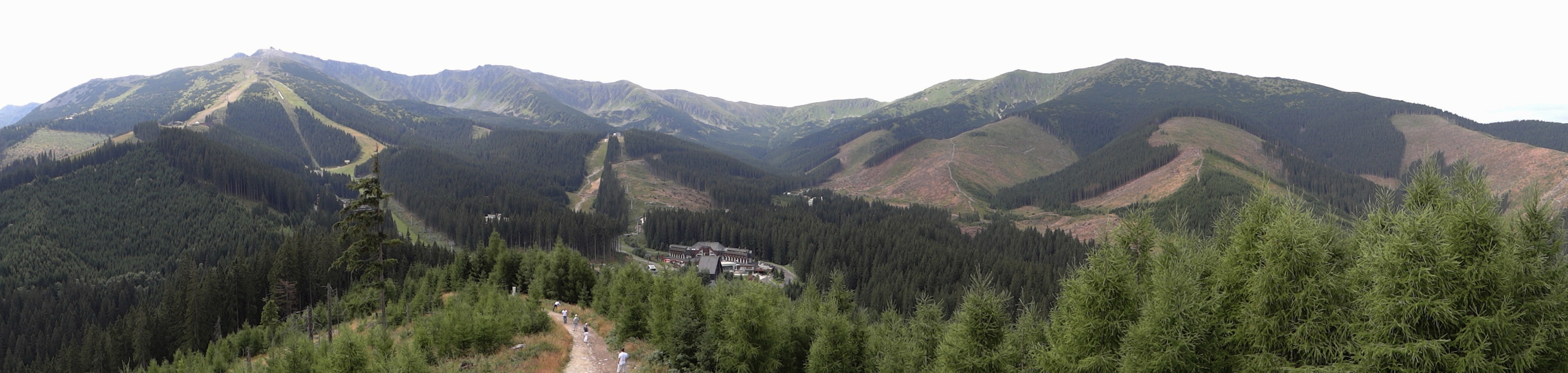 Demänovská dolina. View from Ostredok